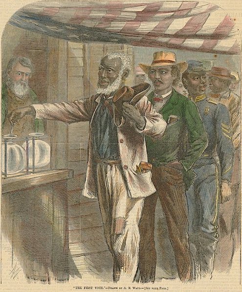 "The First Vote" shows first vote cast by ex-slaves in Reconstruction in US, 1867